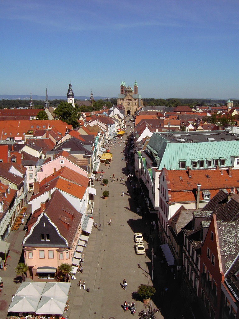 Maximilianstraße in Speyer